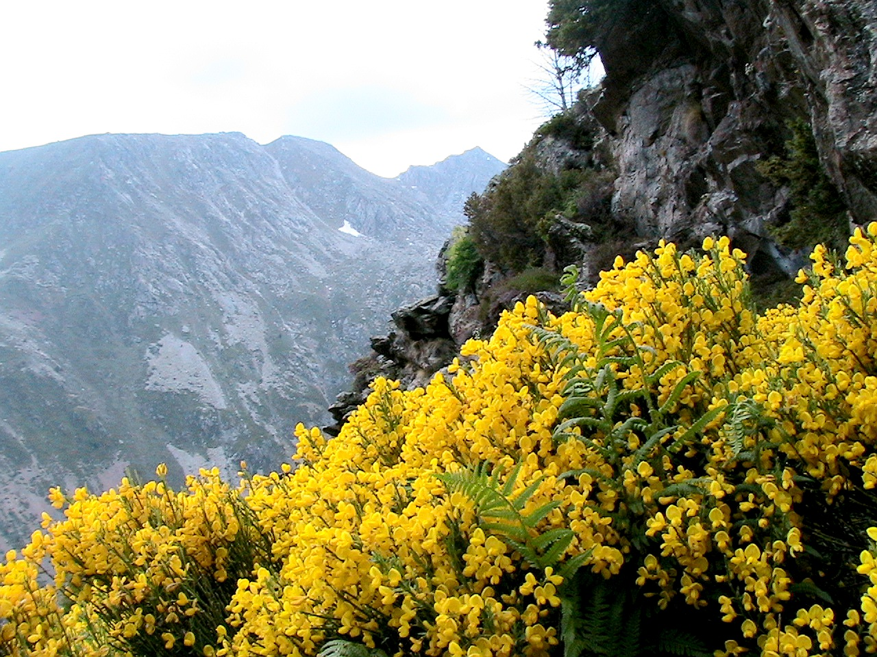 Cytisus oromediterraneus. In Cabdella (Pallars Jussà - Catalunya. To 1.990 m altitude